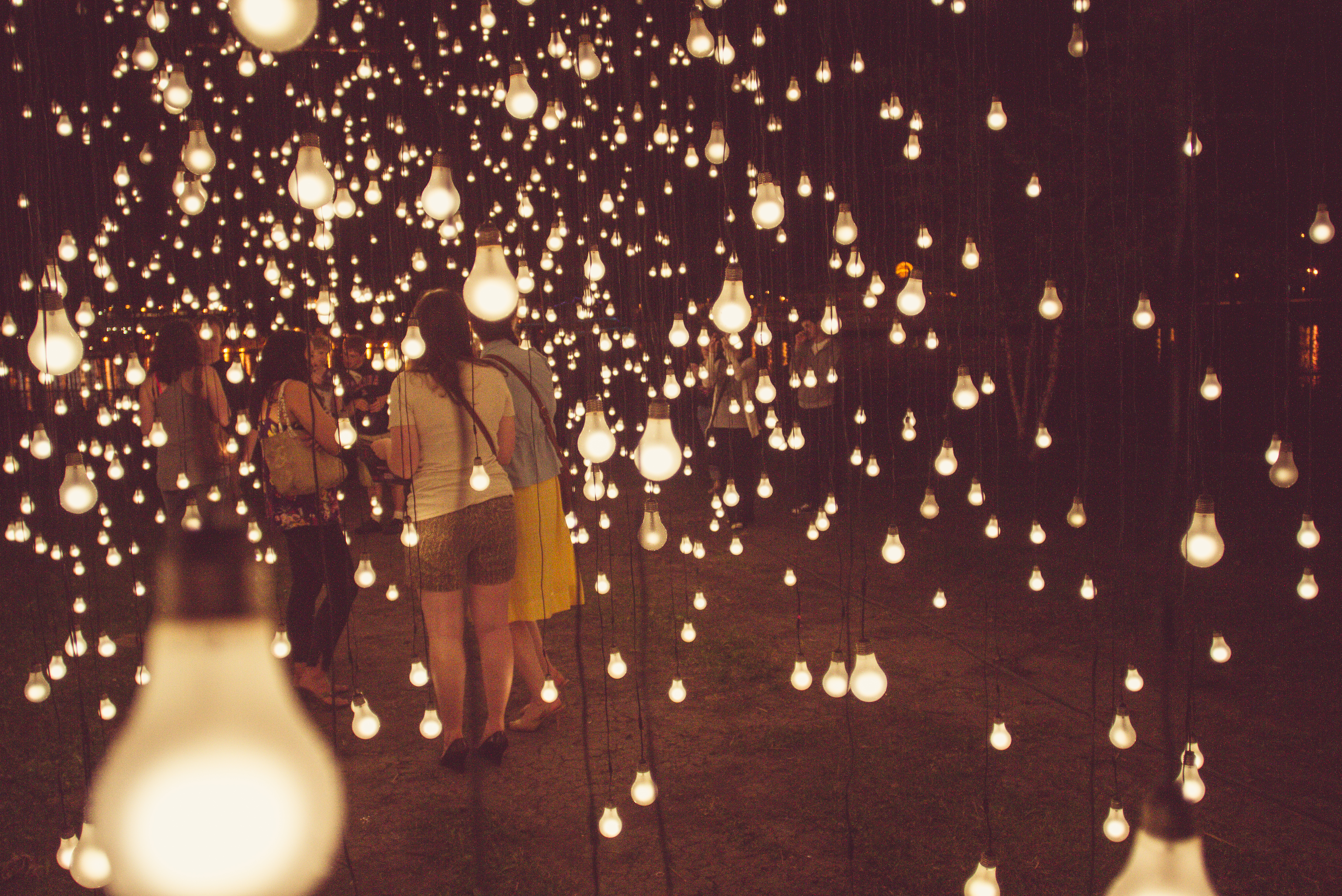 Jim Campbell's "Scattered Light" at Northern Spark, Saint Paul, Minnesota.